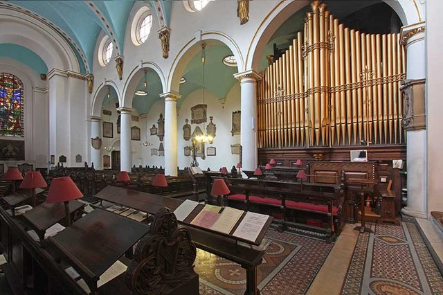 St Michael, Cornhill, London EC3 - Organ, near to London, City of London, Great Britain.